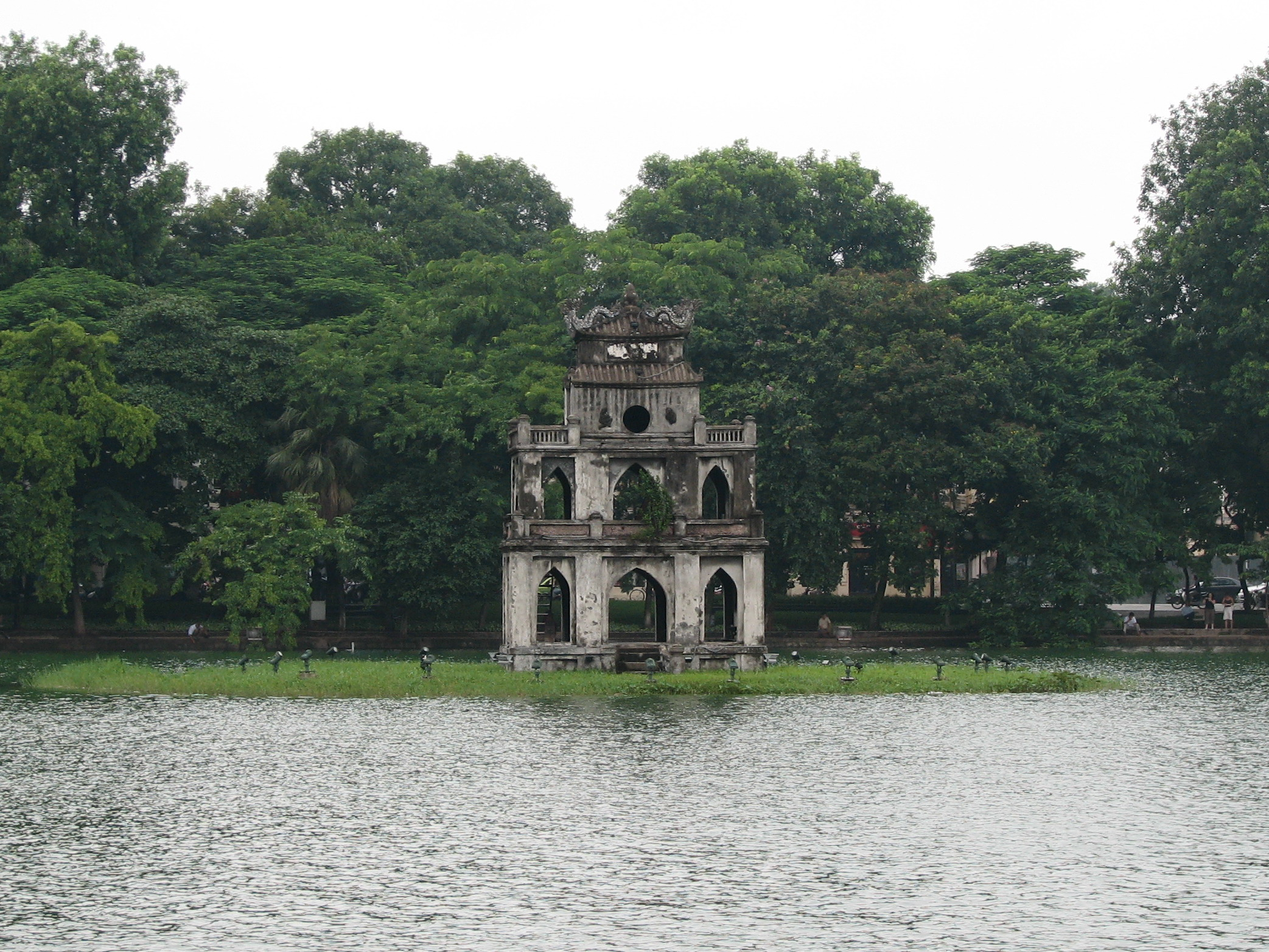 Turtle Tower amid the Hoàn Kiếm Lake